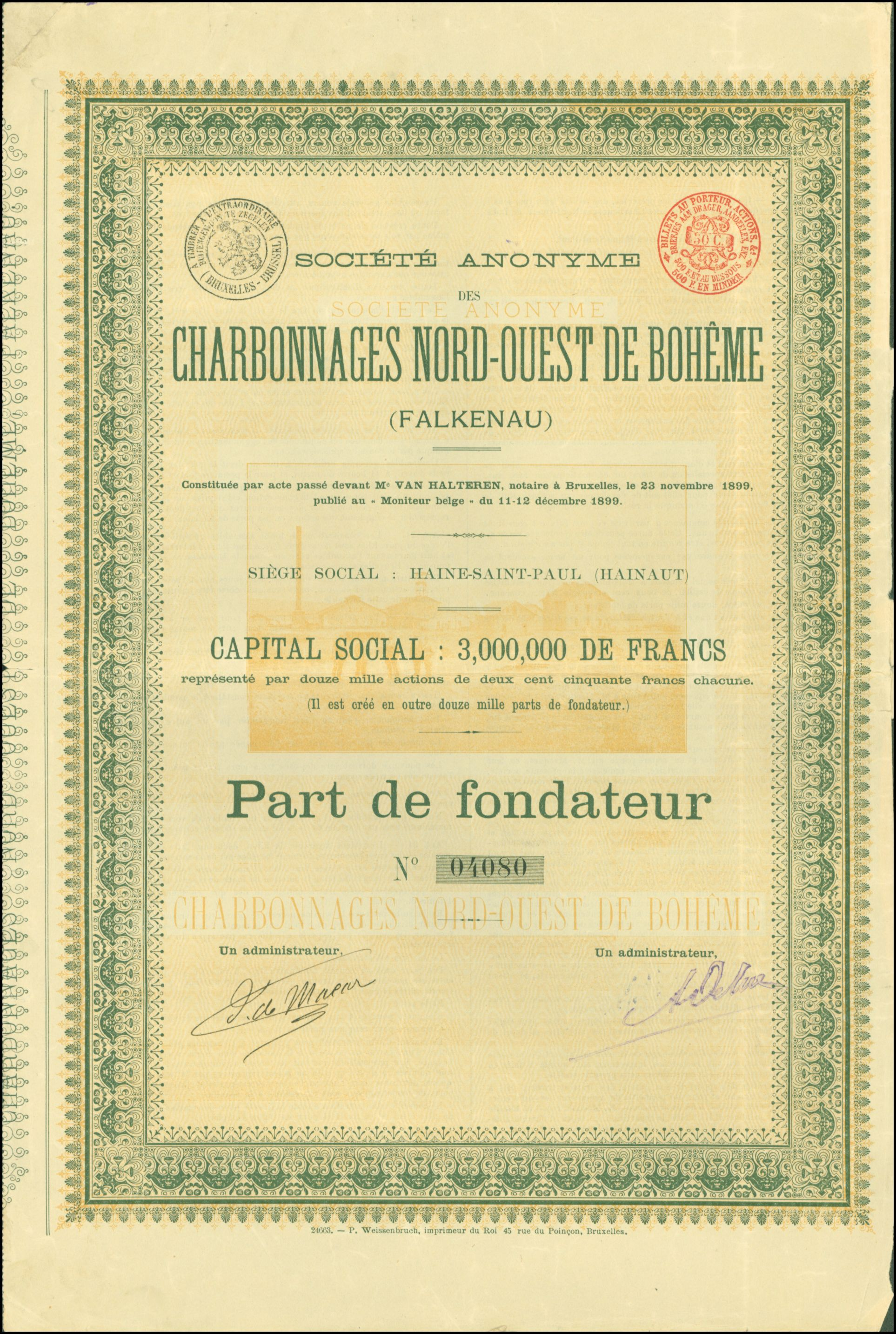 Stock certificate of the S. A. des Charbonnages Nord-Ouest de Boheme (Falkenau), issued 12. December 1899